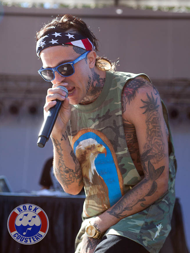 American rapper Yelawolf performing at Bumbershoot 2012.